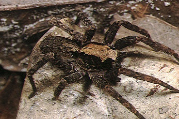 female Ctenus yaeyamensis from Okinawa.